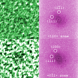 Crystalline Pt nanoparticles observed in a non-crystalline support using 300 keV electrons. The field width of each green square is approximately 56.4[Å], which makes the Nyquist frequency cutoff in these 128×128 pixel images about 128/(2×56.4) ~ 1.13 [cycles/Å]. This is also the half width of the corresponding image power spectra at right. The (111) fringes have a spacing near 2.26 Å, while the (200) fringes have a spacing of about 1.96 Å.